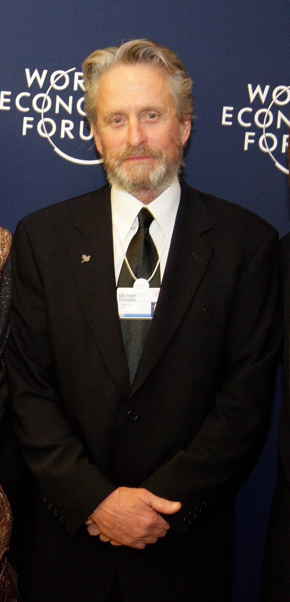 Michael Douglas